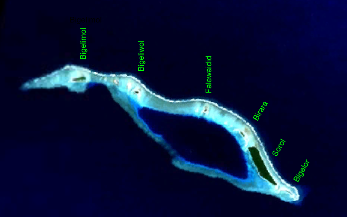 Satellite image of Sorol Atoll, Caroline Islands, Pacific Ocean